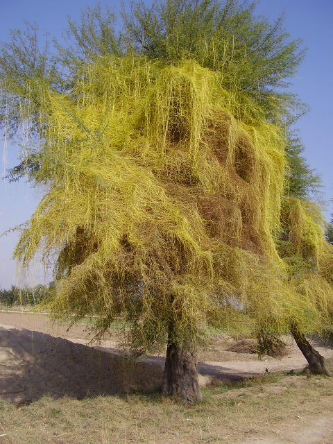 Cuscuta parasite plant on acacia tree in Pakistan